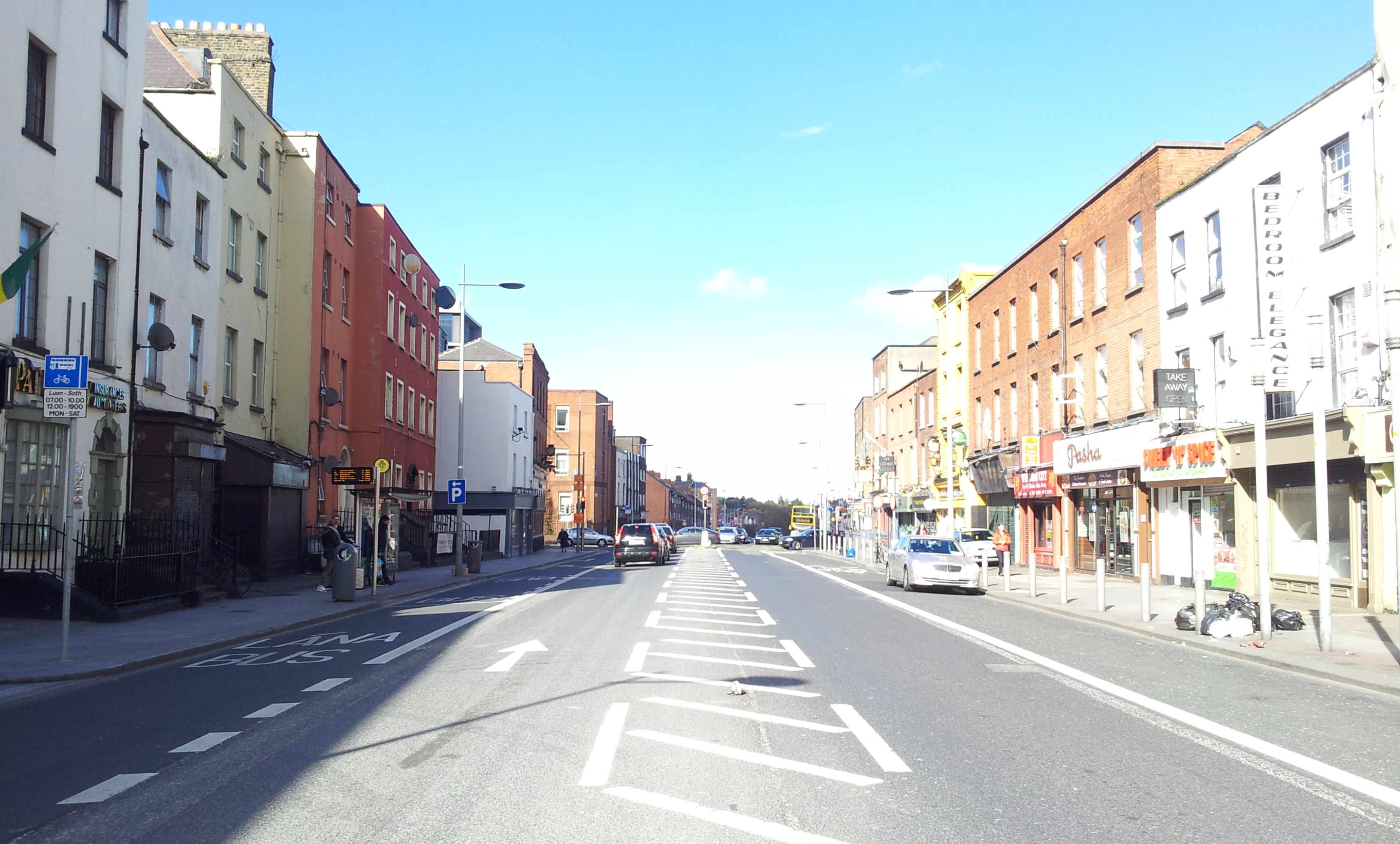 Lower Dorset Street, Dublin